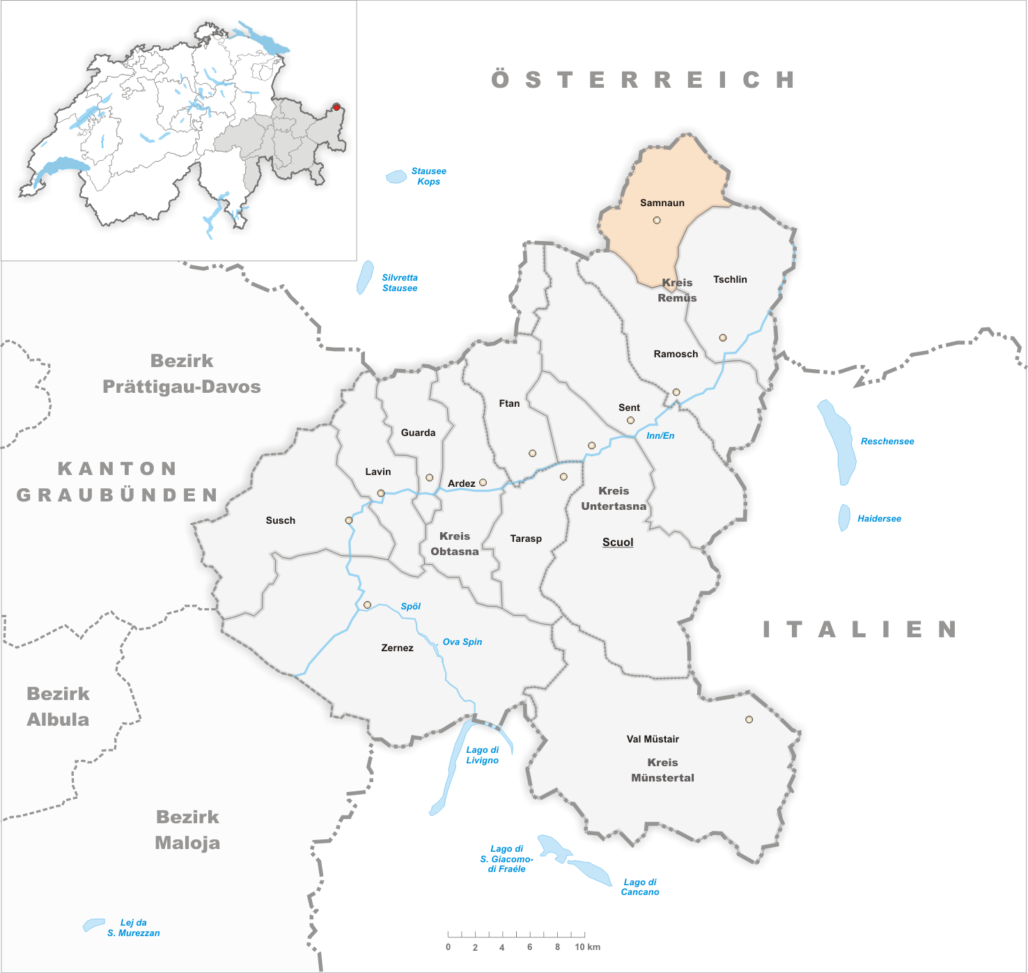 Municipality Samnaun